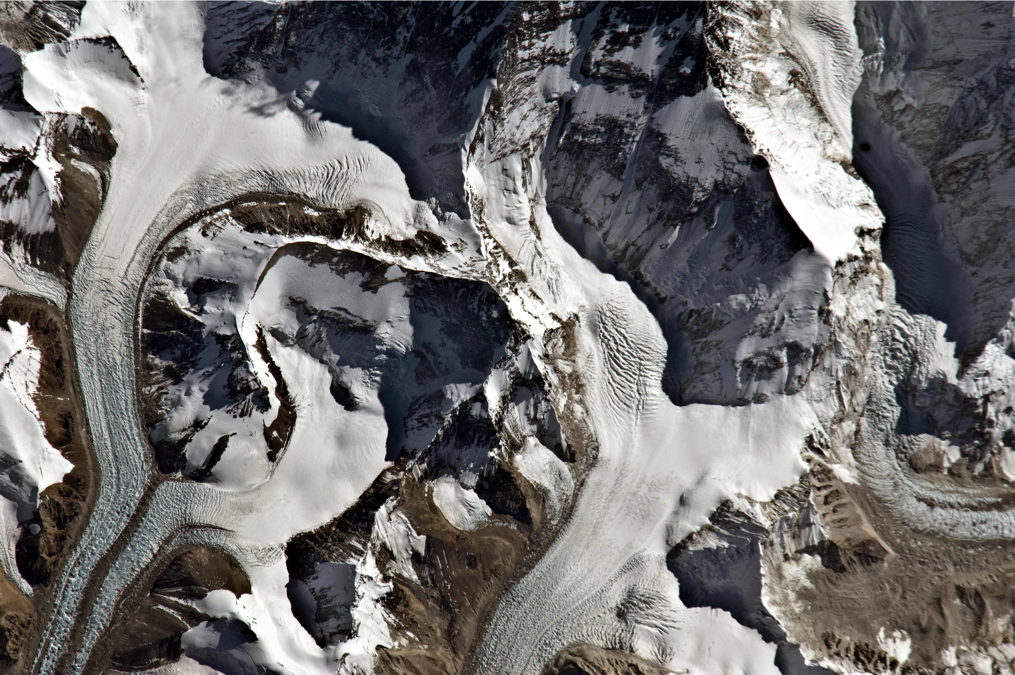 This astronaut photograph highlights the northern approach to Mount Everest from Tibet (China). Known as the north-east ridge route, climbers travel along the East Rongbuk Glacier (image lower left) to camp at the base of Changtse mountain. From this point at approximately 6,100 meters above sea level (asl), climbers ascend the North Col—a sharp-edged pass carved by glaciers, at image centre—to reach a series of progressively higher camps along the North Face of Everest. Climbers make their final push to the summit (just off the top edge of the image) from Camp VI at 8,230 meters altitude. Located within the Himalaya mountain chain, Everest (or Sagarmatha in Nepali) is the Earth’s highest mountain, with its summit at 8,848 meters above sea level. Khumbutse mountain, visible at the lower right, has a summit elevation of 6,640 meters asl.